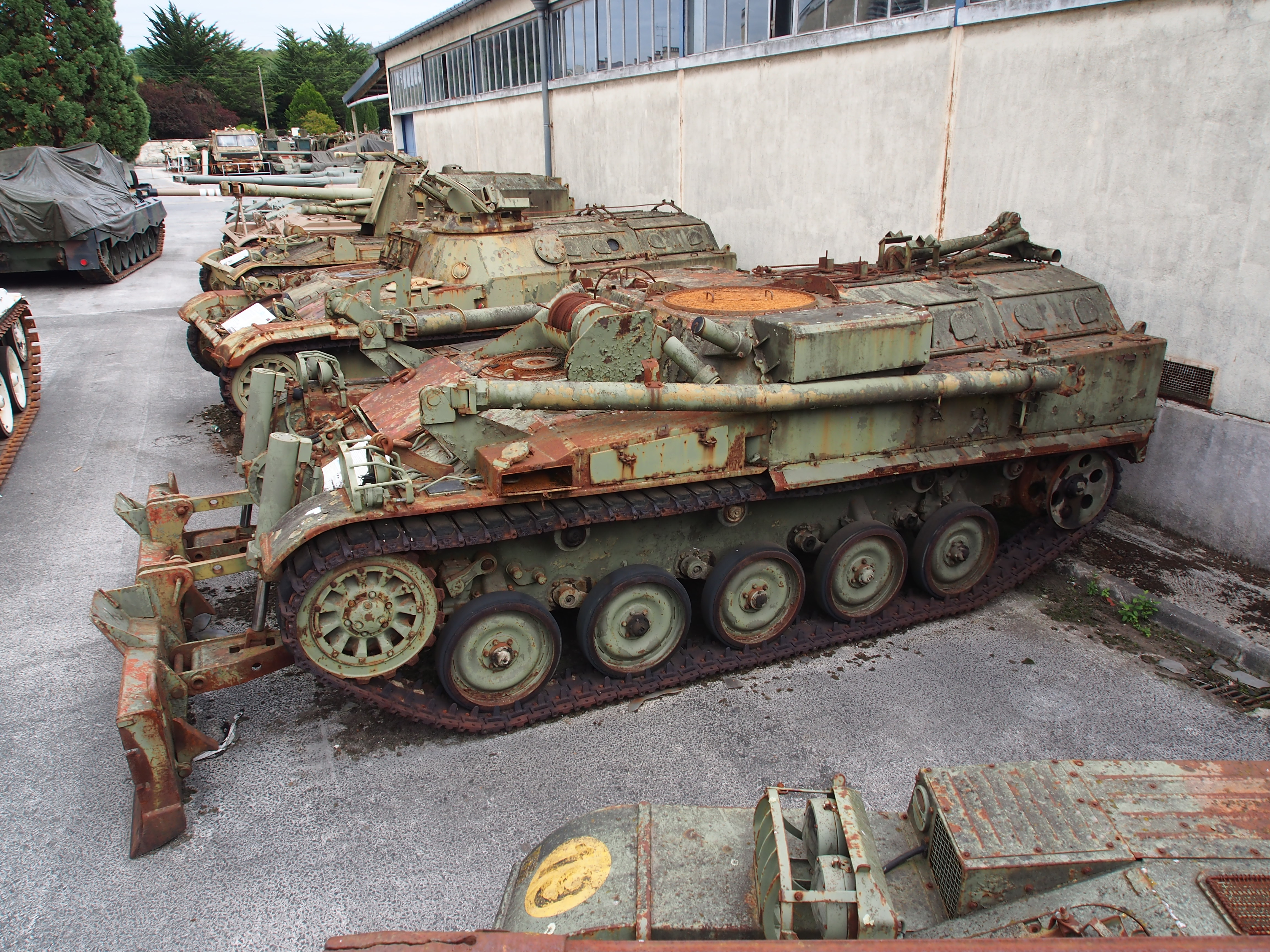 Photographed in the Musée des Blindés, France.